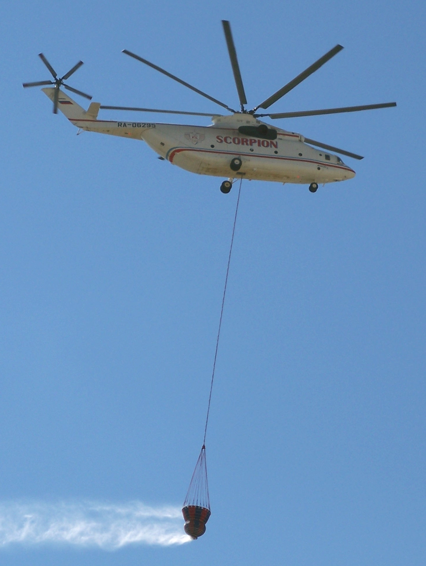 A Mil Mi-26TC in firefighter role in action over Athens.